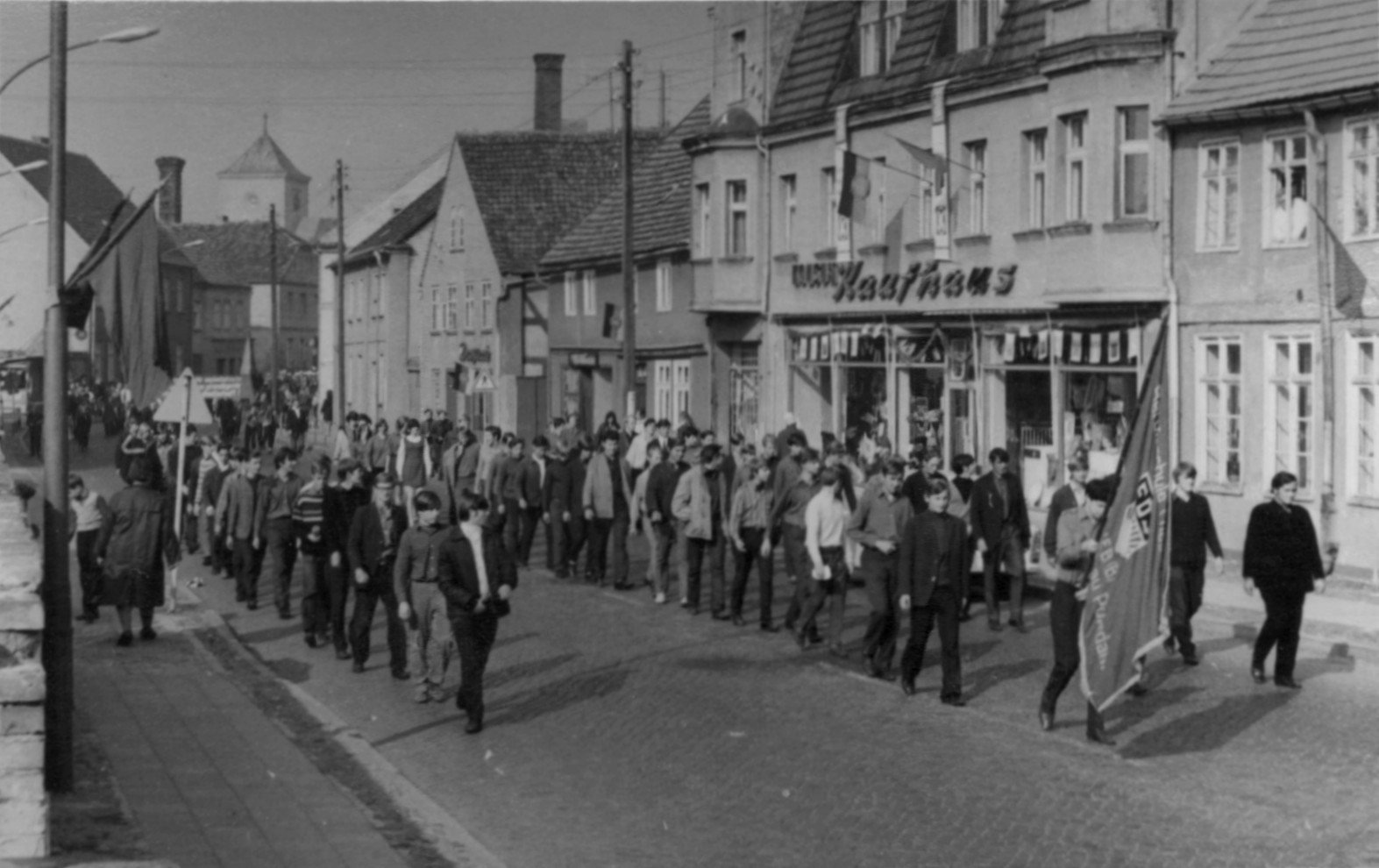 The day of republic had benn celebrated during the DDR goverment time. The picture shows a procession in the Berliner Street in Friesack at the 7 October 1969.